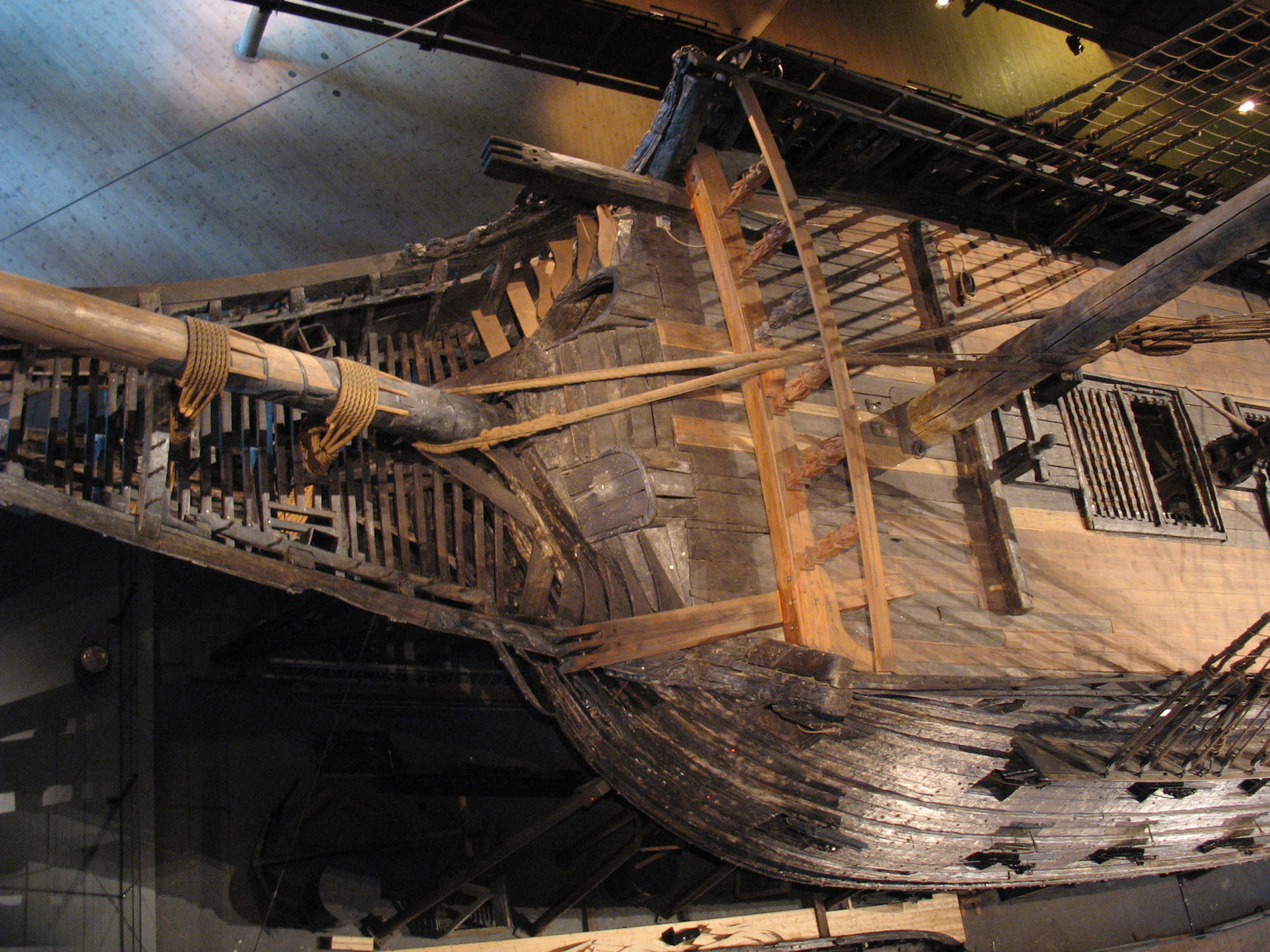 The bow of the 17th century warship Vasa on display at the Vasa Museum in Stockholm. Shot from the lighting service catwalk under the ceiling of the museum.